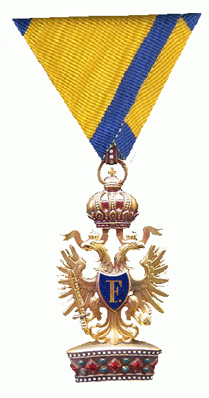 Knight in the Order of the Iron Crown